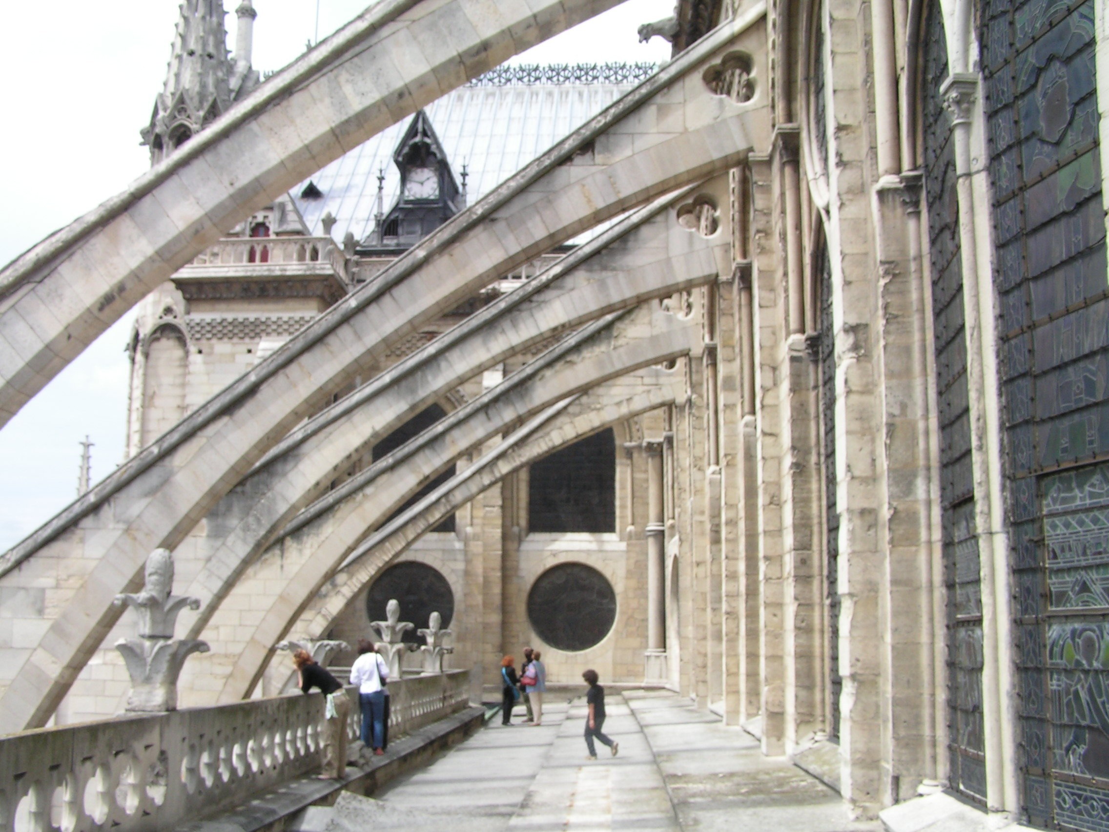 Notre Dame de Paris, Île de la Cité in Paris, France